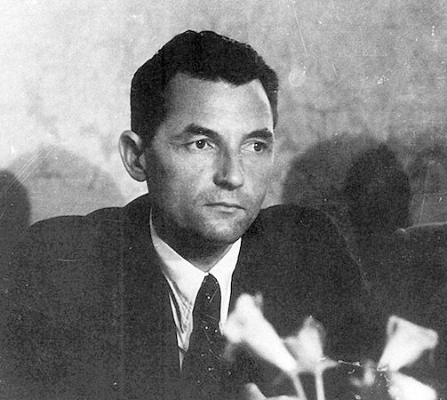 Stanisław Radkiewicz (1907-1987) head of the Polish communist secret police (Urząd Bezpieczeństwa or UB) between 1944 and 1954 he was one of the chief organizers of Stalinist terror in Poland in those years.